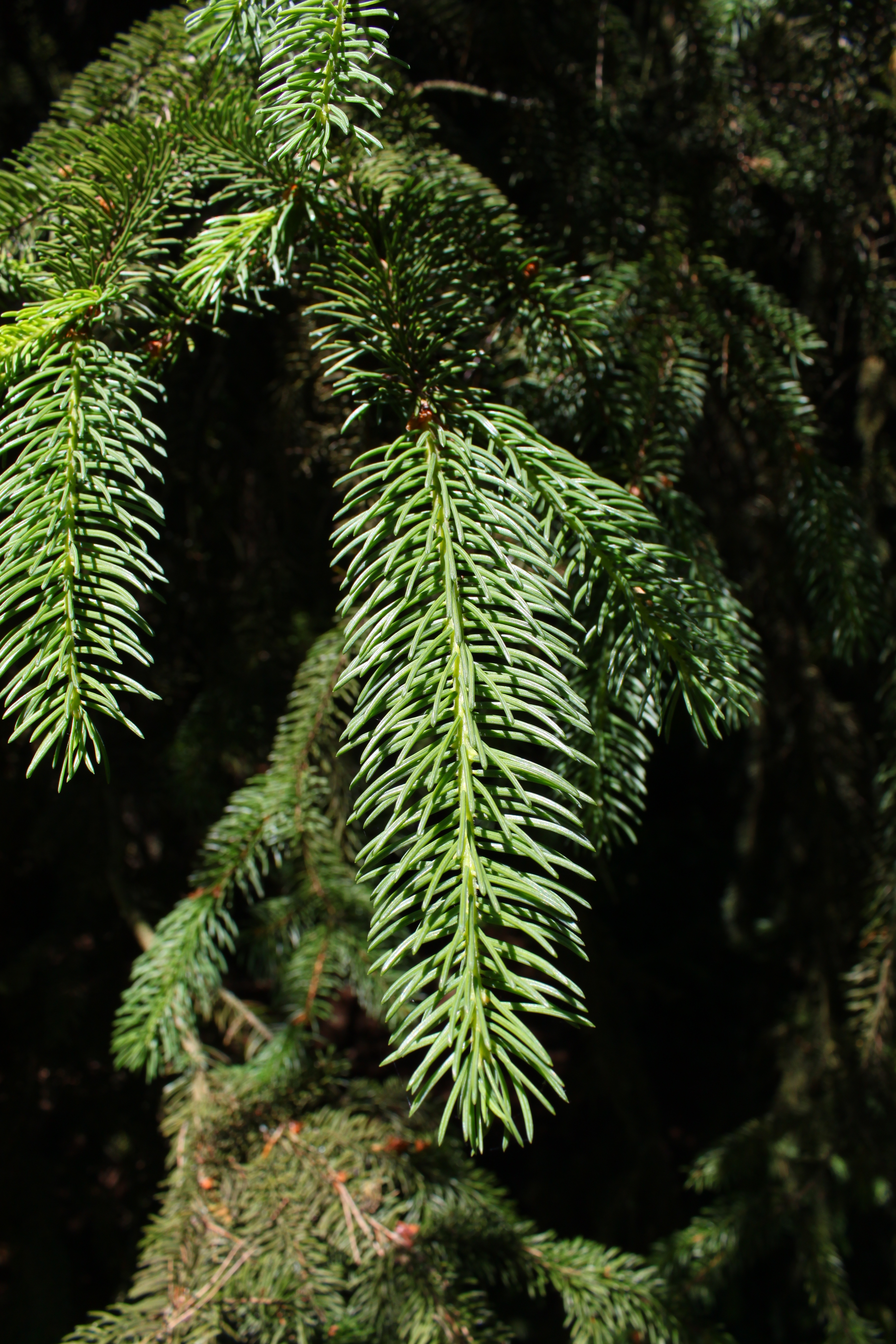 Picea koyamae foliage (shoot) in Rogów Arboretum, Poland